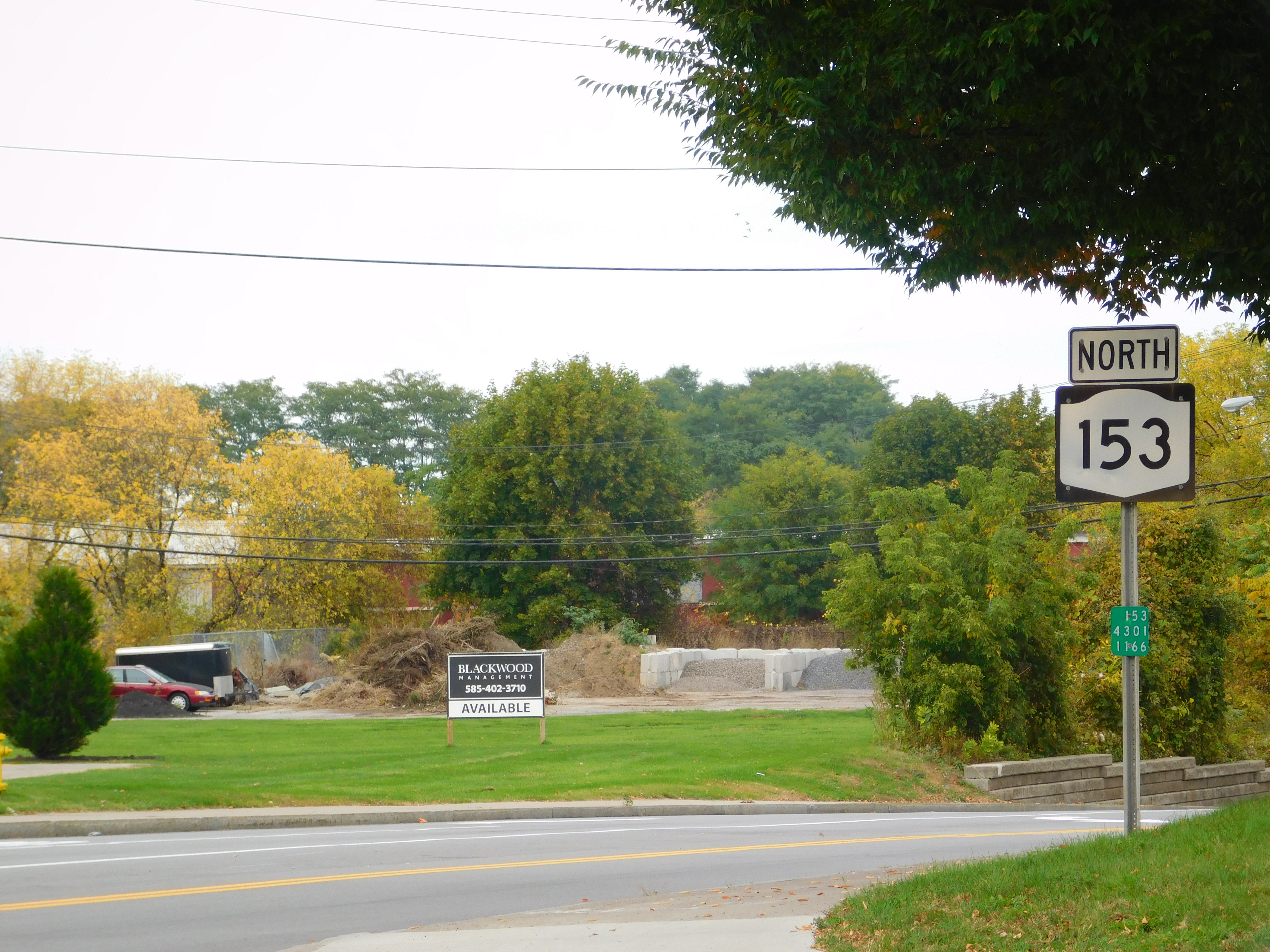 New York State Route 153 in East Rochester, New York.